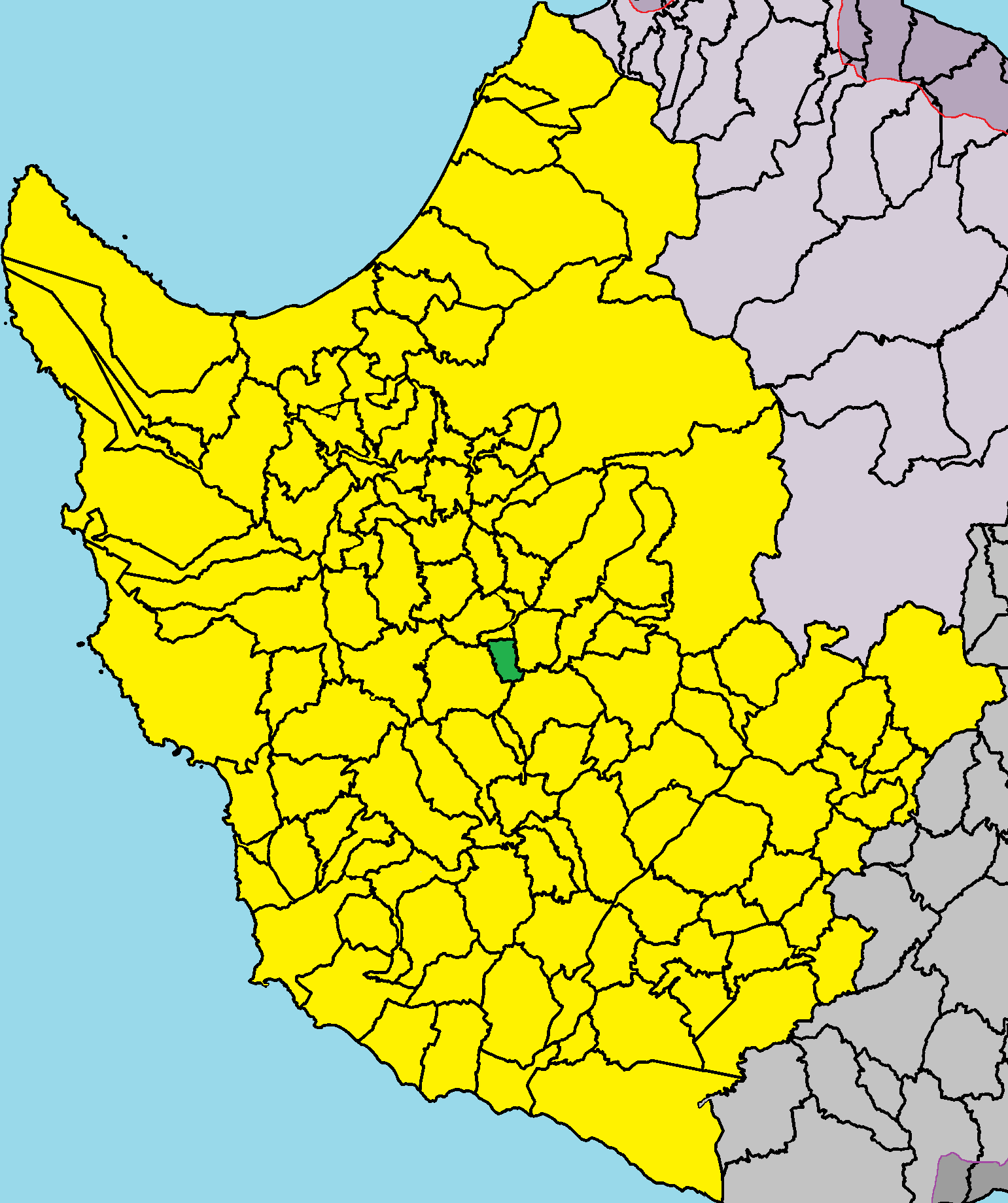 Psathi in Paphos District.